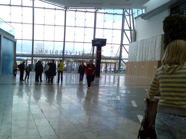 Entrance to new Silverburn Centre in Pollok This new £350m shopping complex is now the fourth largest shopping area in Scotland, or the largest excluding city centres! Taken on the opening weekend - this was the Sunday, after the centre opened on Thursday.